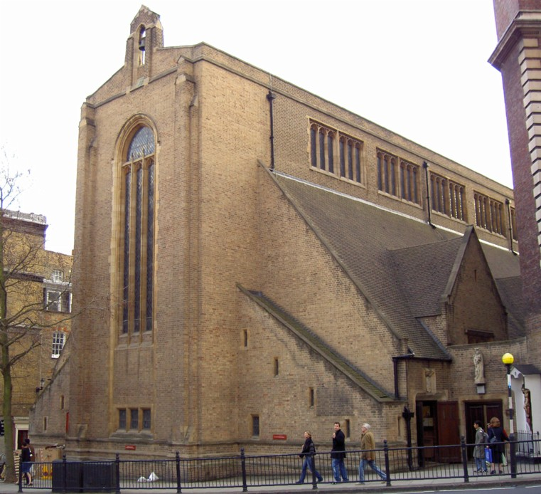 Our Lady of Mount Carmel Church (RC), Kensington Church Street, London. By Sir Giles Gilbert Scott, en:1954-59. Category:Images of London